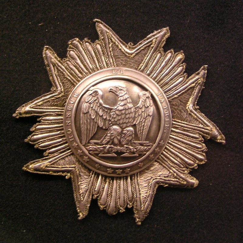 made during a summer day in Warsaw's Museum of the Polish Army; Grand star of the Légion d'Honneur from the times of Napoleon